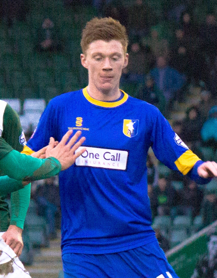 Sam Clucas playing for Mansfield Town against Plymouth Argyle at Home Park, Plymouth on 1 February 2014